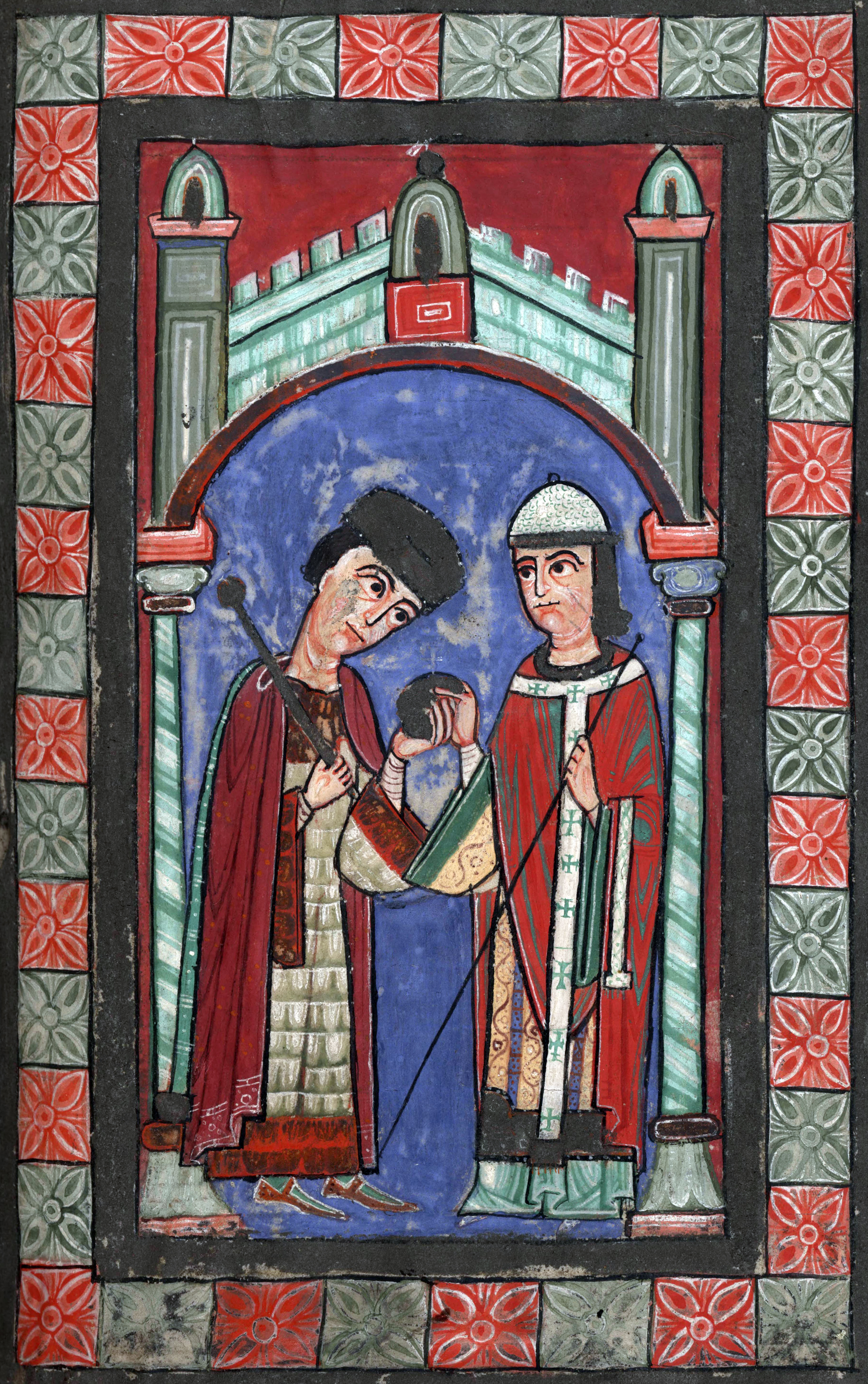 Henry V, Holy Roman Emperor (1086-1125), is given an orb by Ruthard, Archbishop of Mainz. False color edit of an illustration from the manuscript CCC MS 373, page 83.